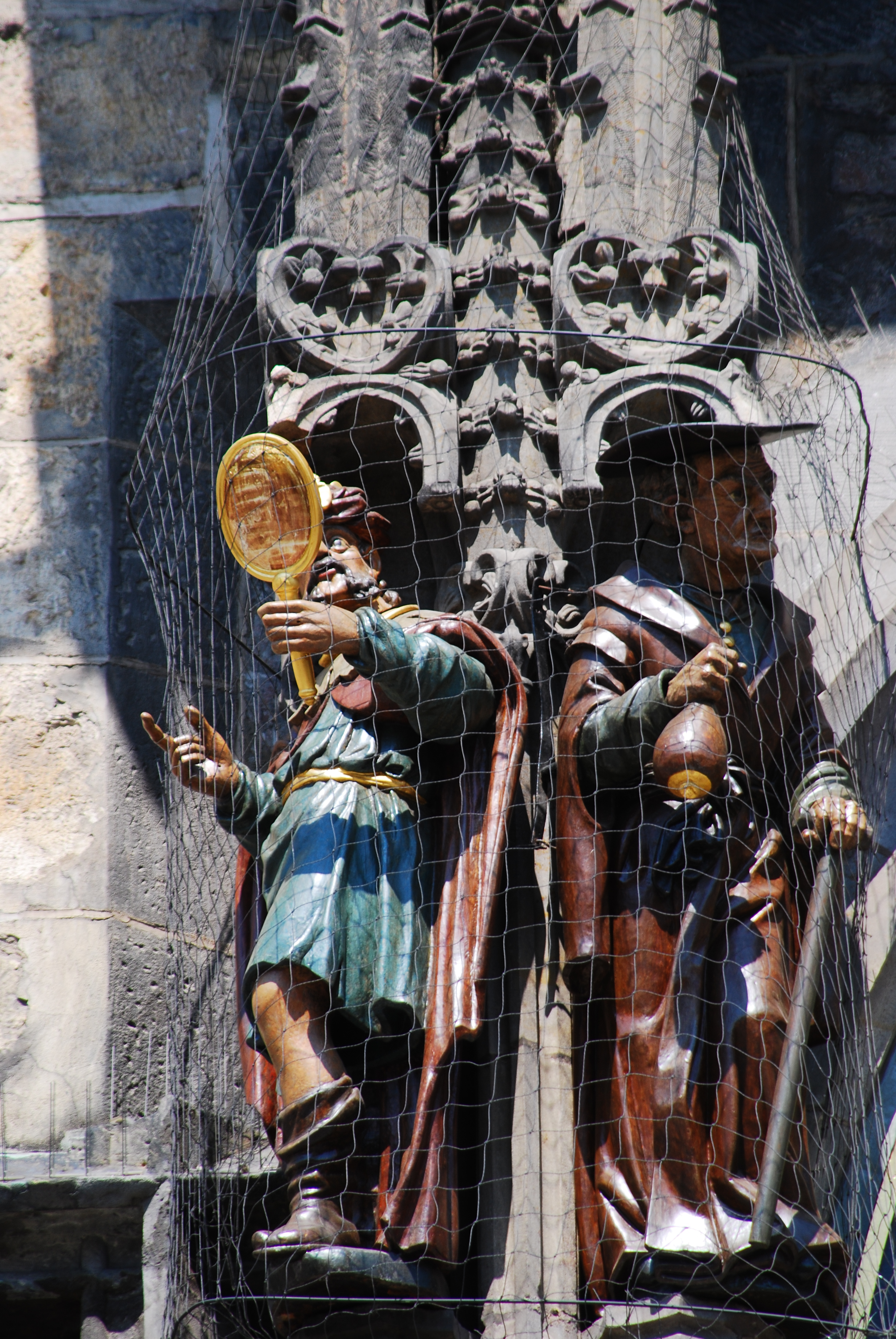 The Prague Astronomical Clock or Prague Orloj (Czech: Pražský orloj, [praʒski: ɔrlɔi]) is a medieval astronomical clock located in Prague, the capital of the Czech Republic. The Orloj is mounted on the southern wall of Old Town City Hall in the Old Town Square and is a popular tourist attraction. The Orloj is composed of three main components: the astronomical dial, representing the position of the Sun and Moon in the sky and displaying various astronomical details; "The Walk of the Apostles", a clockwork hourly show of figures of the Apostles and other moving sculptures; and a calendar dial with medallions representing the months. Click below for a full demonstration of how the orlo works